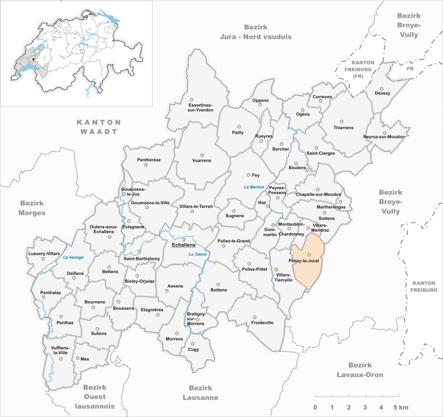 Municipality Peney-le-Jorat